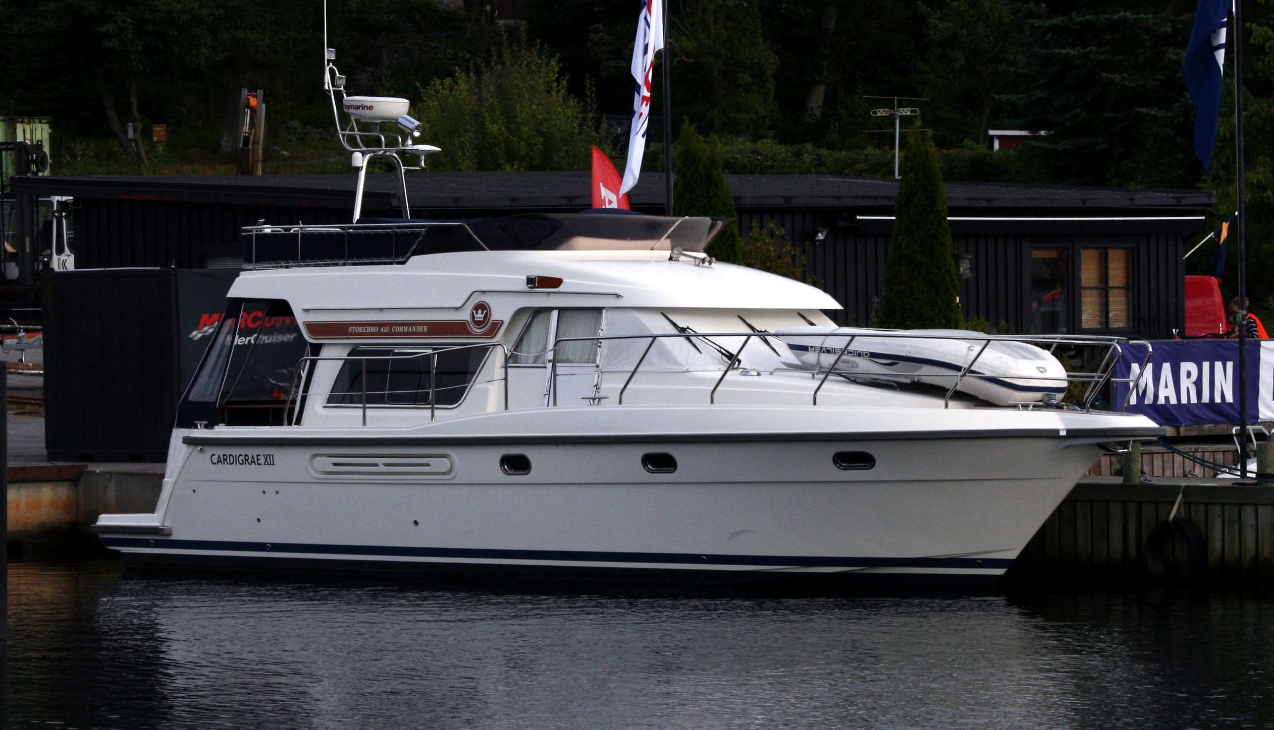 2009 Storebro 410 Commander